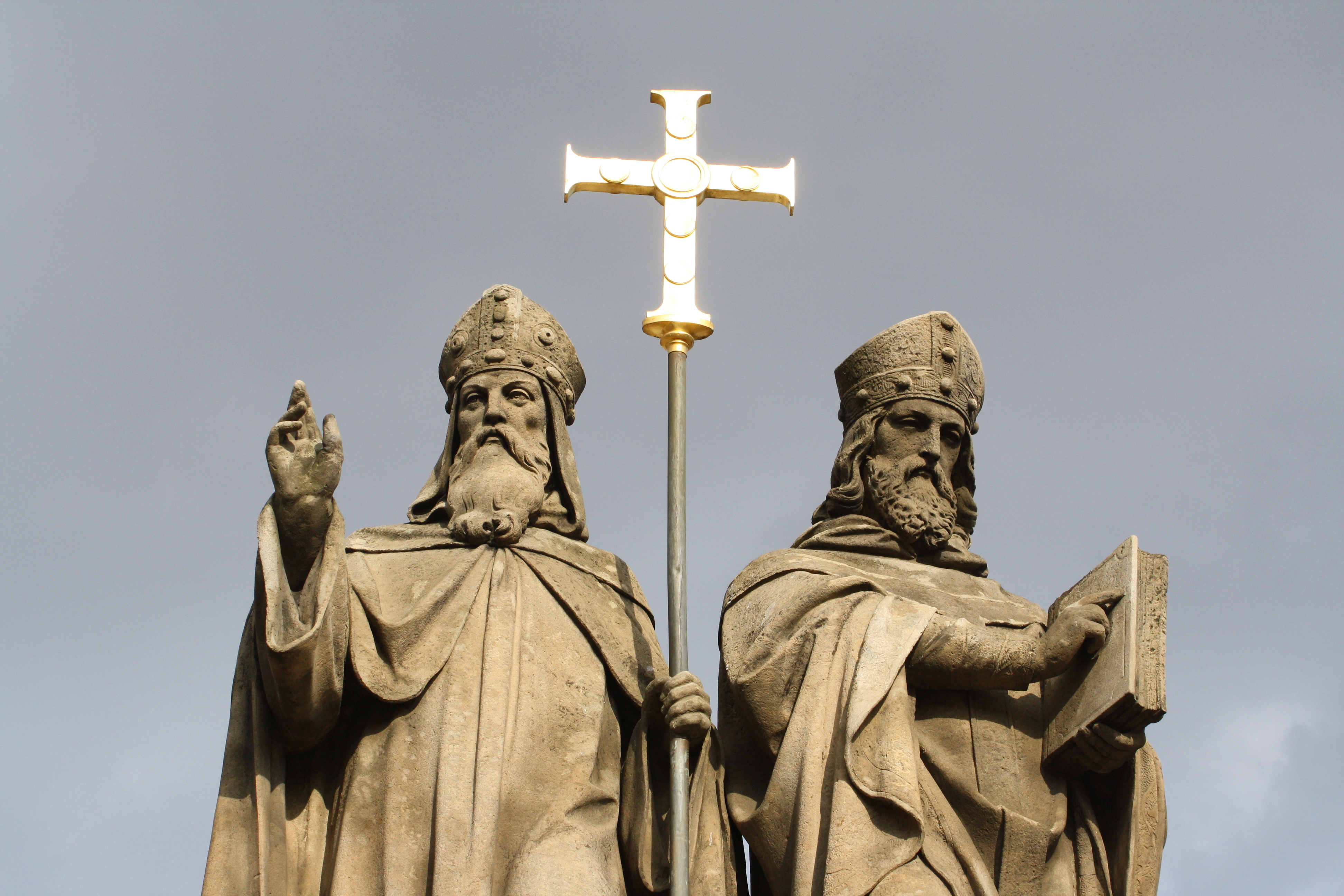 Top of Statue of Saints Cyril and Methodius in Třebíč.